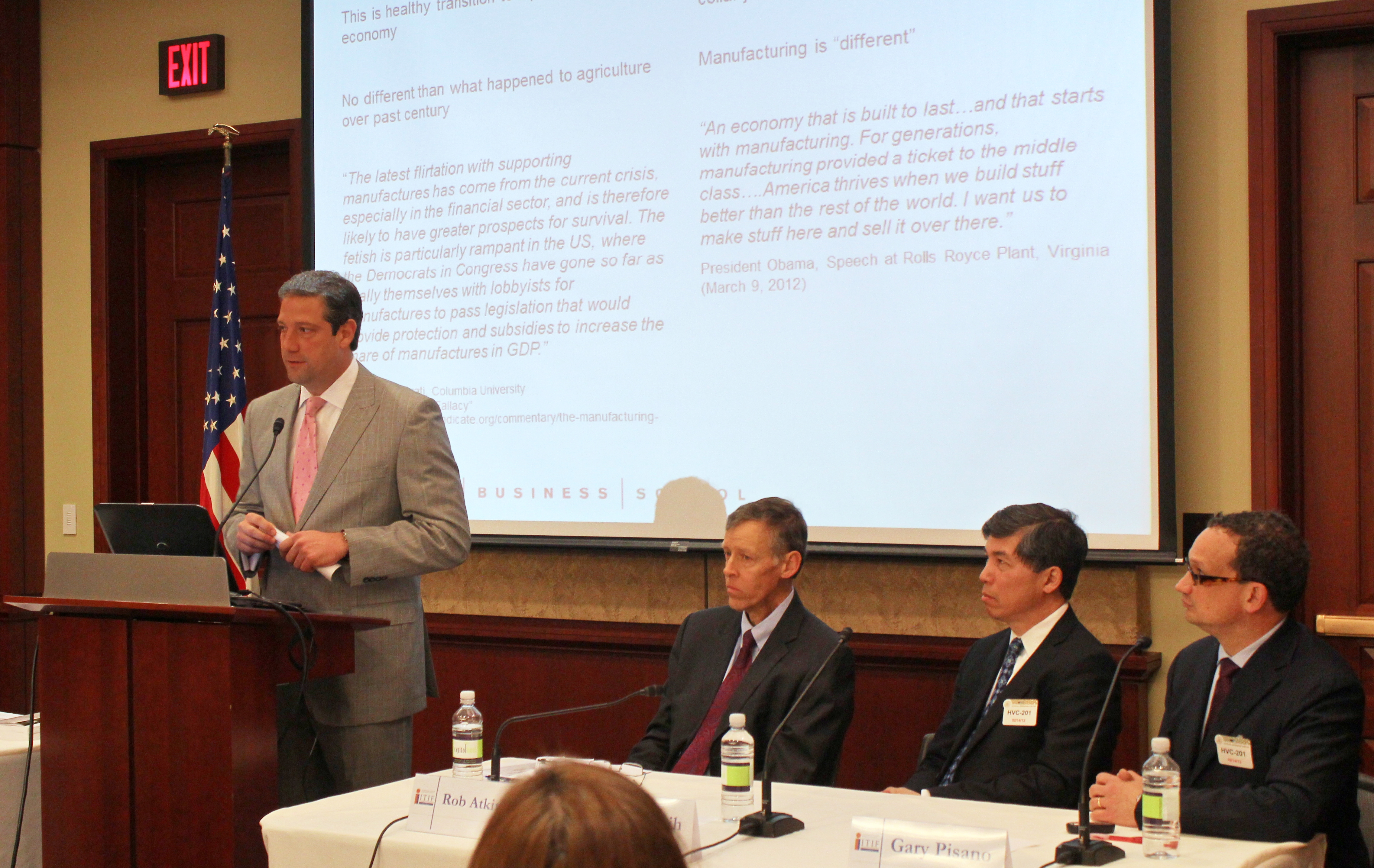 Discussion of the causes, evidence, and consequences of faltering U.S. competitiveness